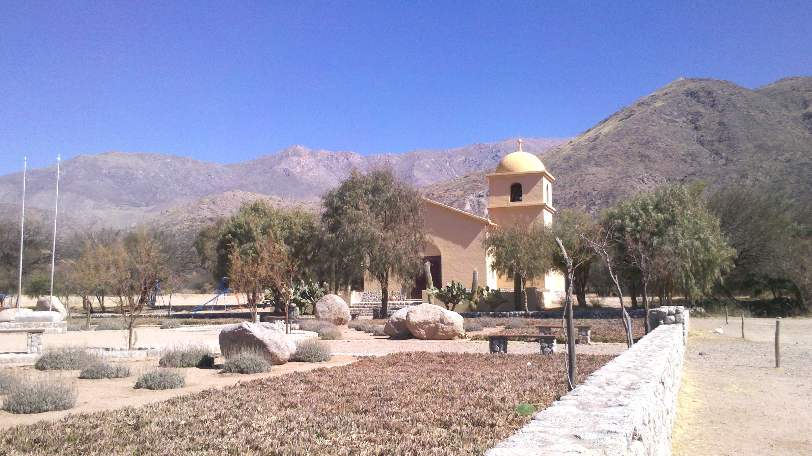 CAPILLA - COLOME - MOLINOS